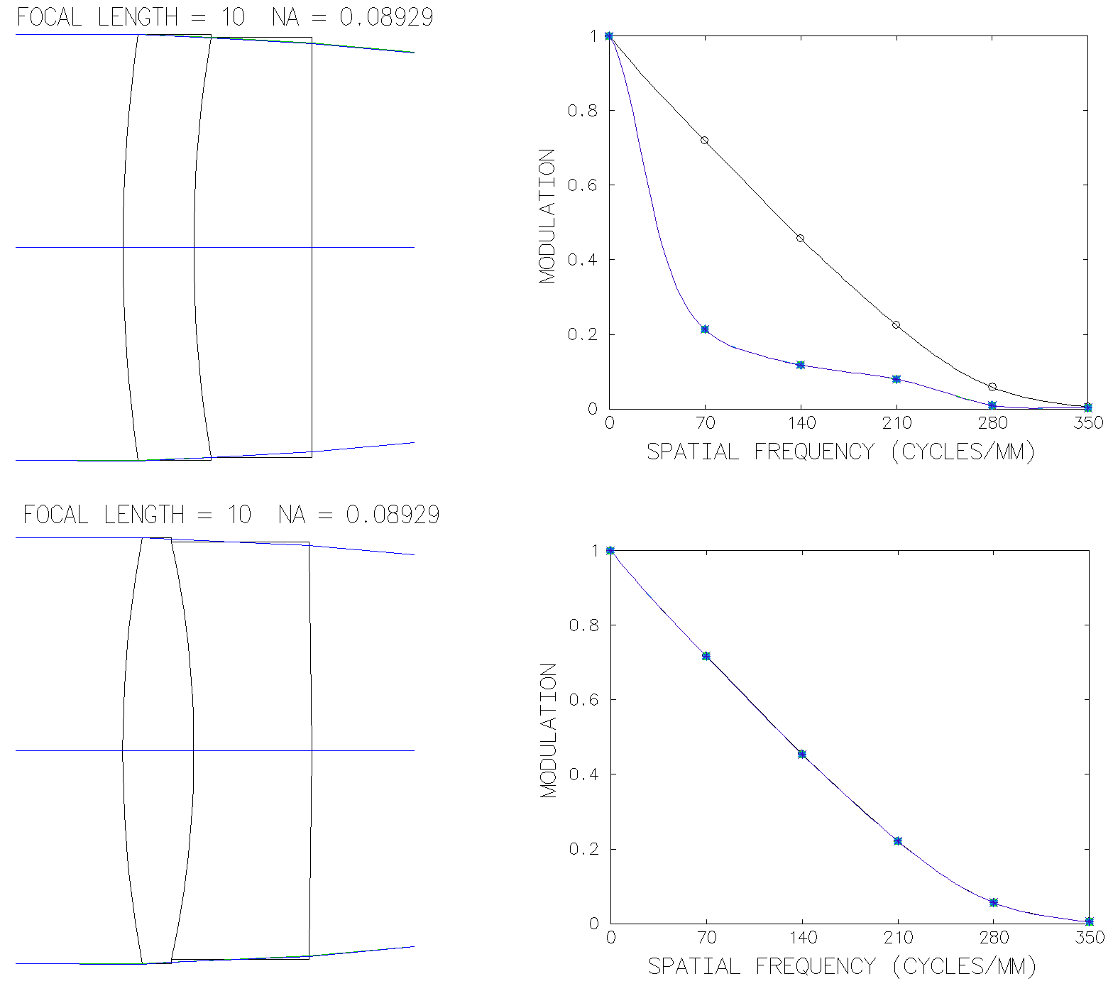 Comparison of the MTF curves of two different lens doublet of focal length 10mm and aperture f/5.6. The top image presents a system suffering from Spherical Aberration. The bottom image presents a system corrected for all aberrations for the aperture and consequently diffraction limited.